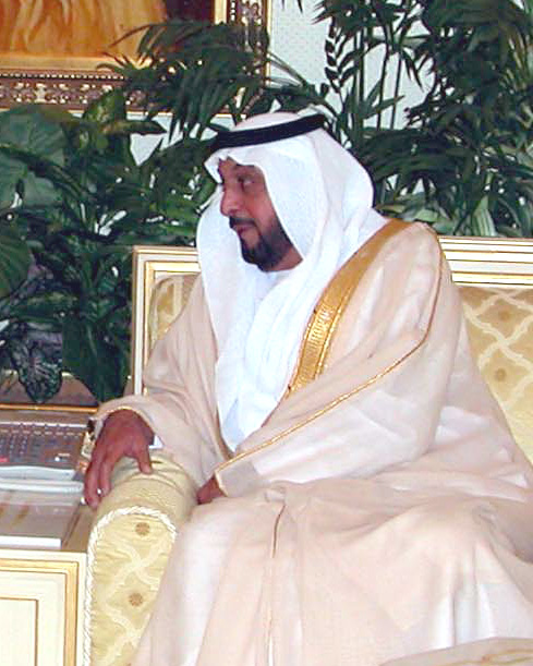 Khalifa bin Zayed Al Nahayan, Ruler of Abu Dhabi and President of UAE